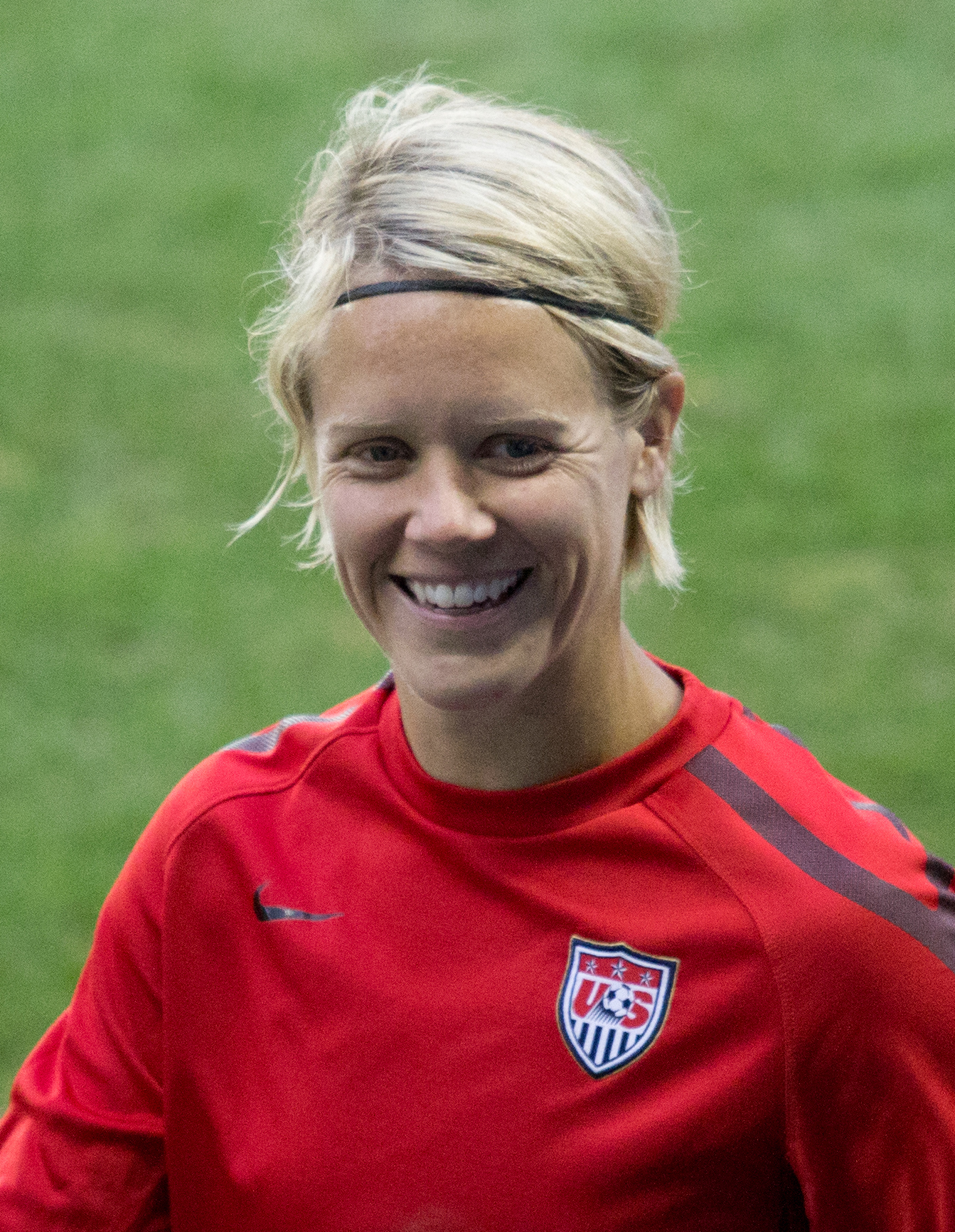 Lori Lindsey of the United States Women's National Soccer team prior to a friendly match against Canada on September 17th, 2011.